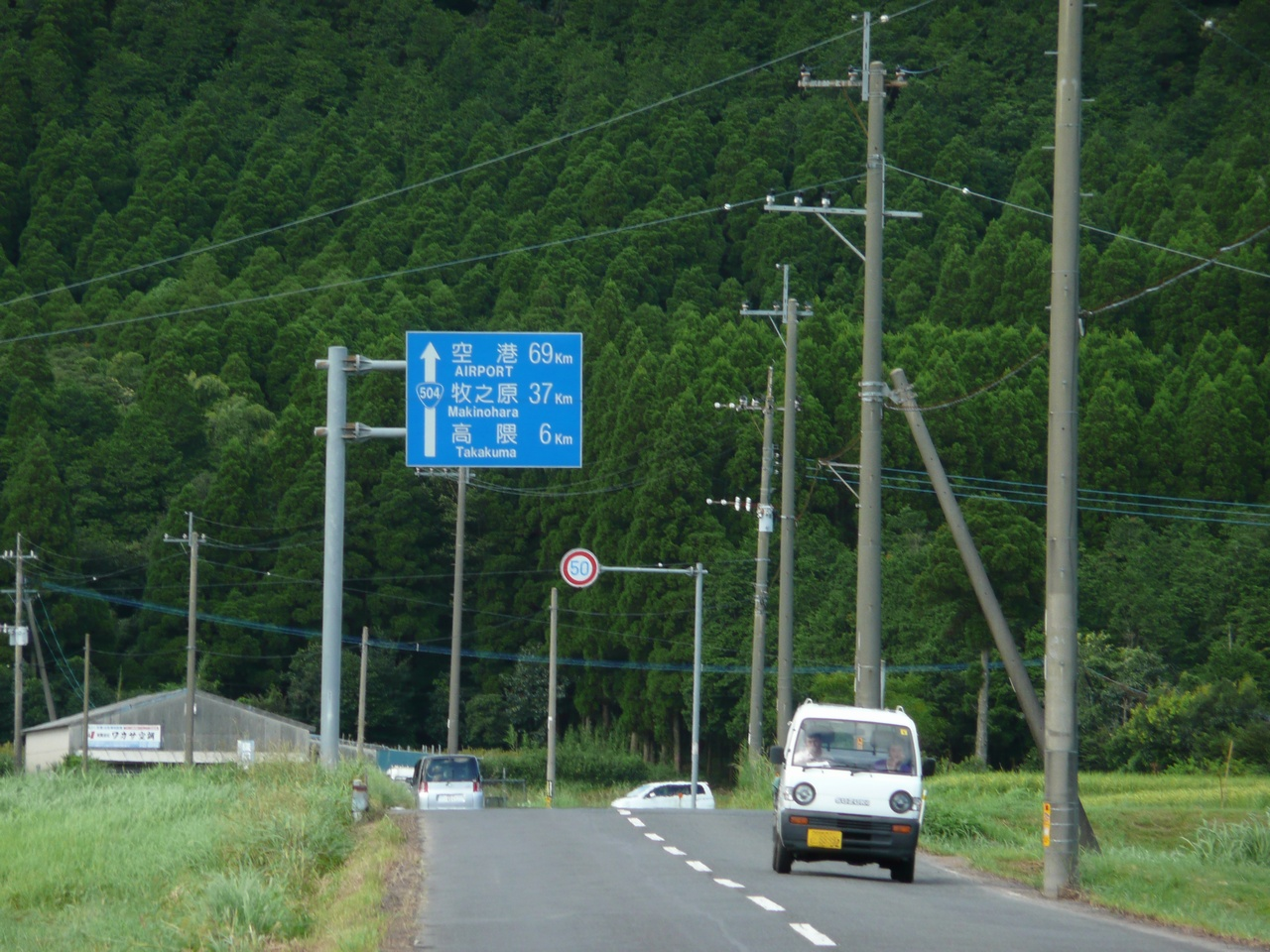 National Route 504 (Kammiharaigawa-cho, Kanoya City, Kagoshima, Japan)